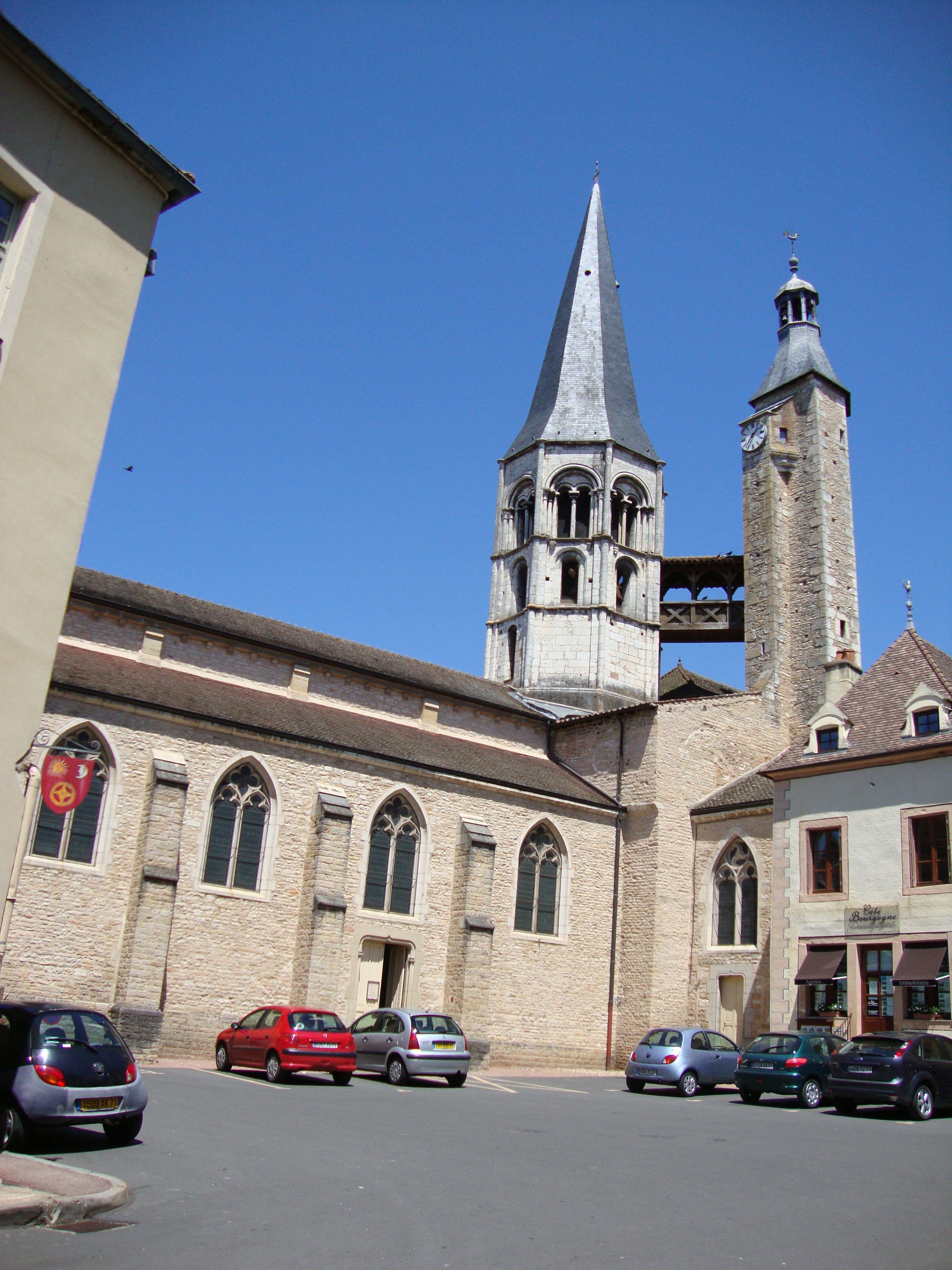 Saint-Gengoux-le-National (Saône-et-Loire, Fr) church